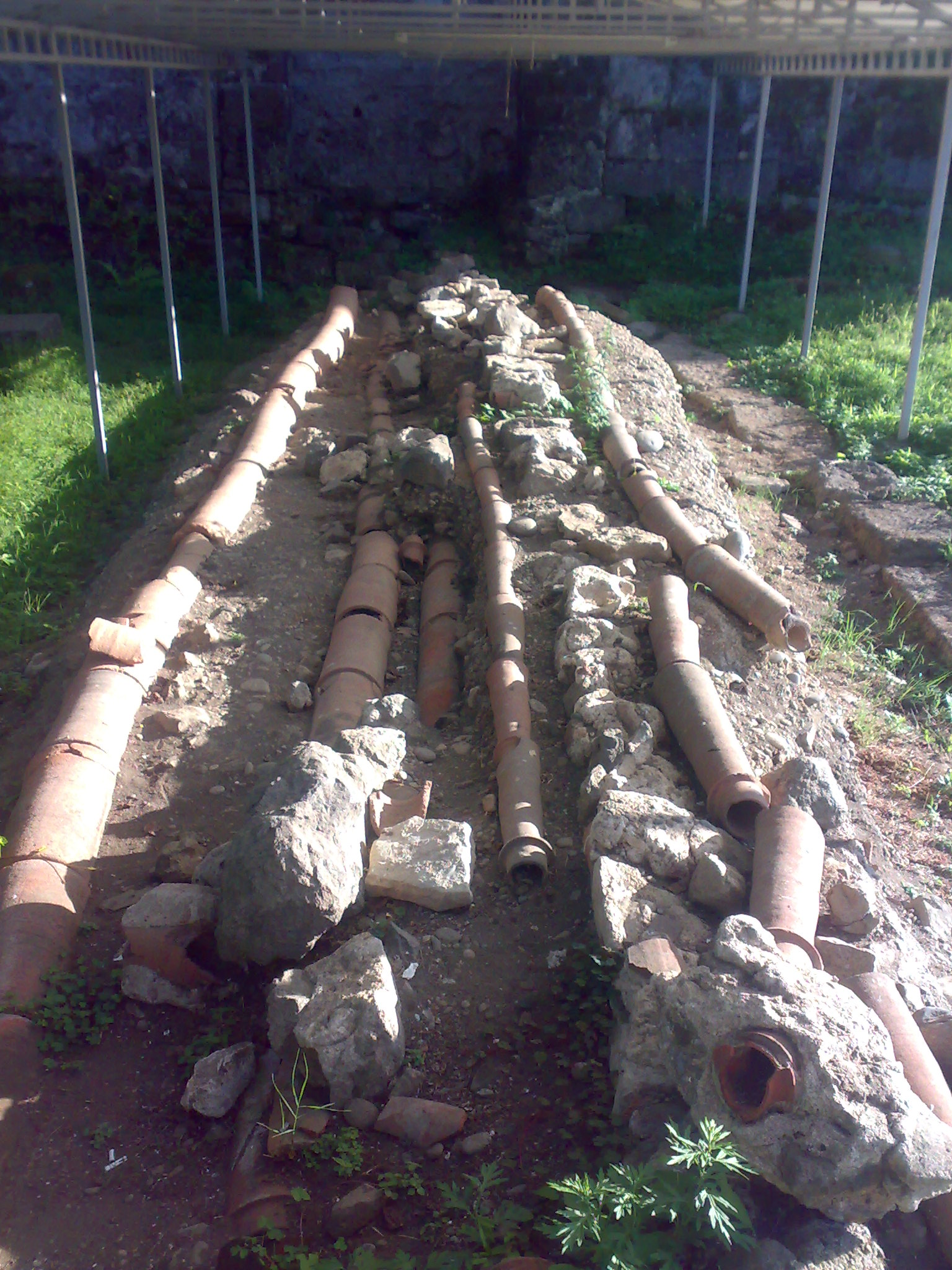 Water supply in Gonio fortress.